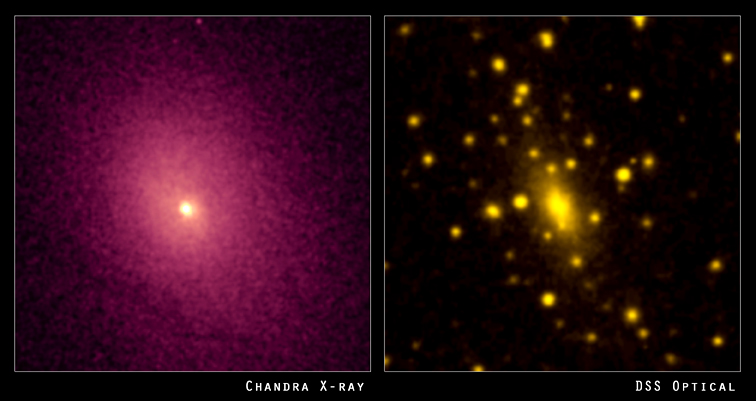 Abell 2029 is composed of thousands of galaxies (optical image, right) enveloped in a gigantic cloud of hot gas (X-ray image, left), and an amount of dark matter equivalent to more than a hundred trillion Suns. Both the gas and the galaxies are confined to the cluster primarily by the gravity of the dark matter. If this galaxy cluster is a representative sample of the universe, the Chandra observation indicates that 70 to 90 percent of the mass of the universe consists of dark matter - mysterious particles left over from the dense early universe that interact with each other and "normal" matter only through gravity.